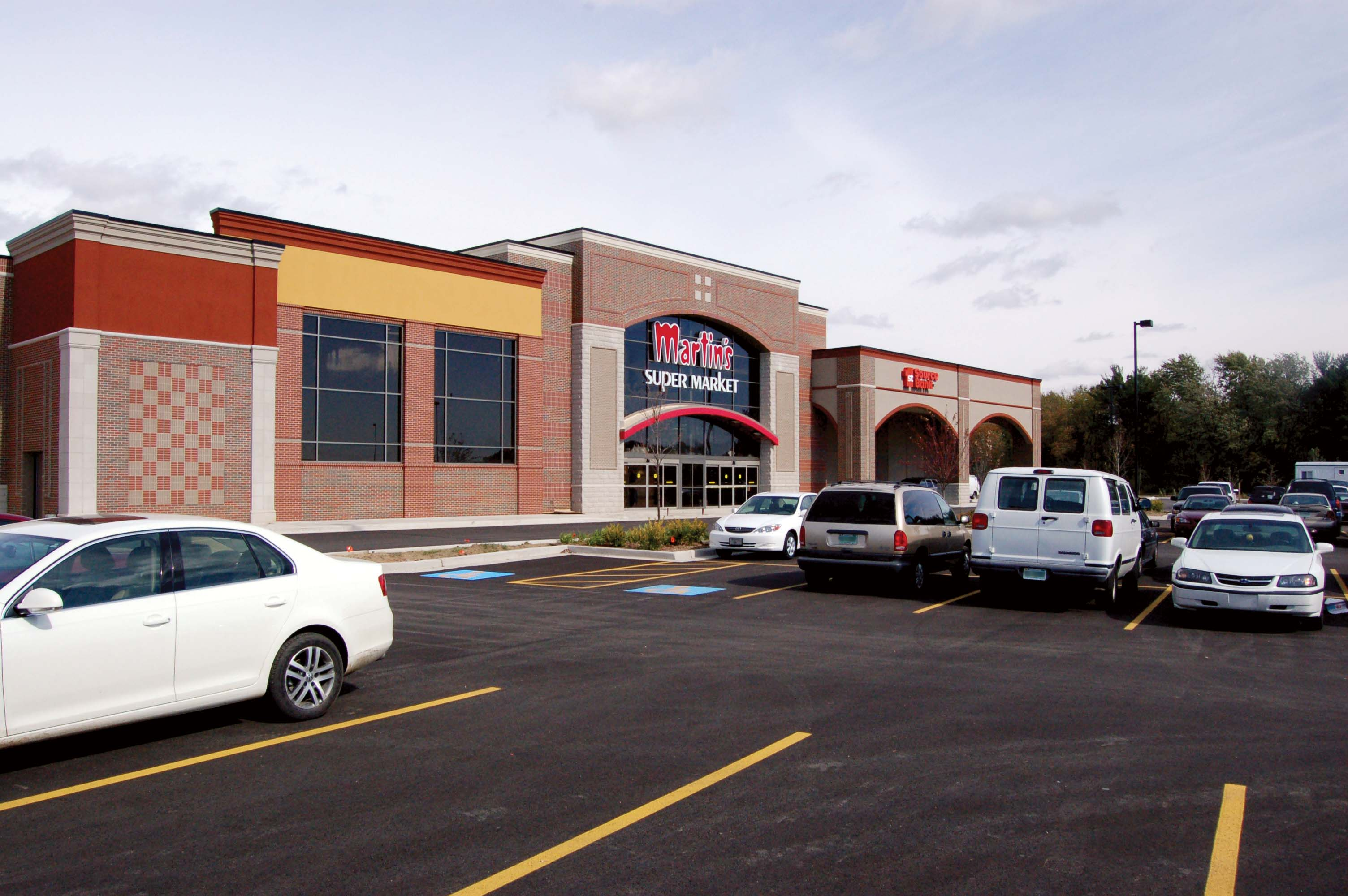 Image of Martin's Supermarket located at Heritage Square